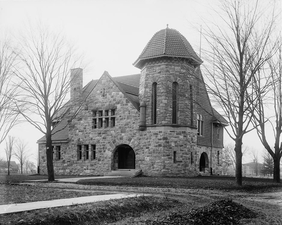 Starkweather Hall, Students' Christian Association, Michigan State Normal College, Ypsilanti, Mich.